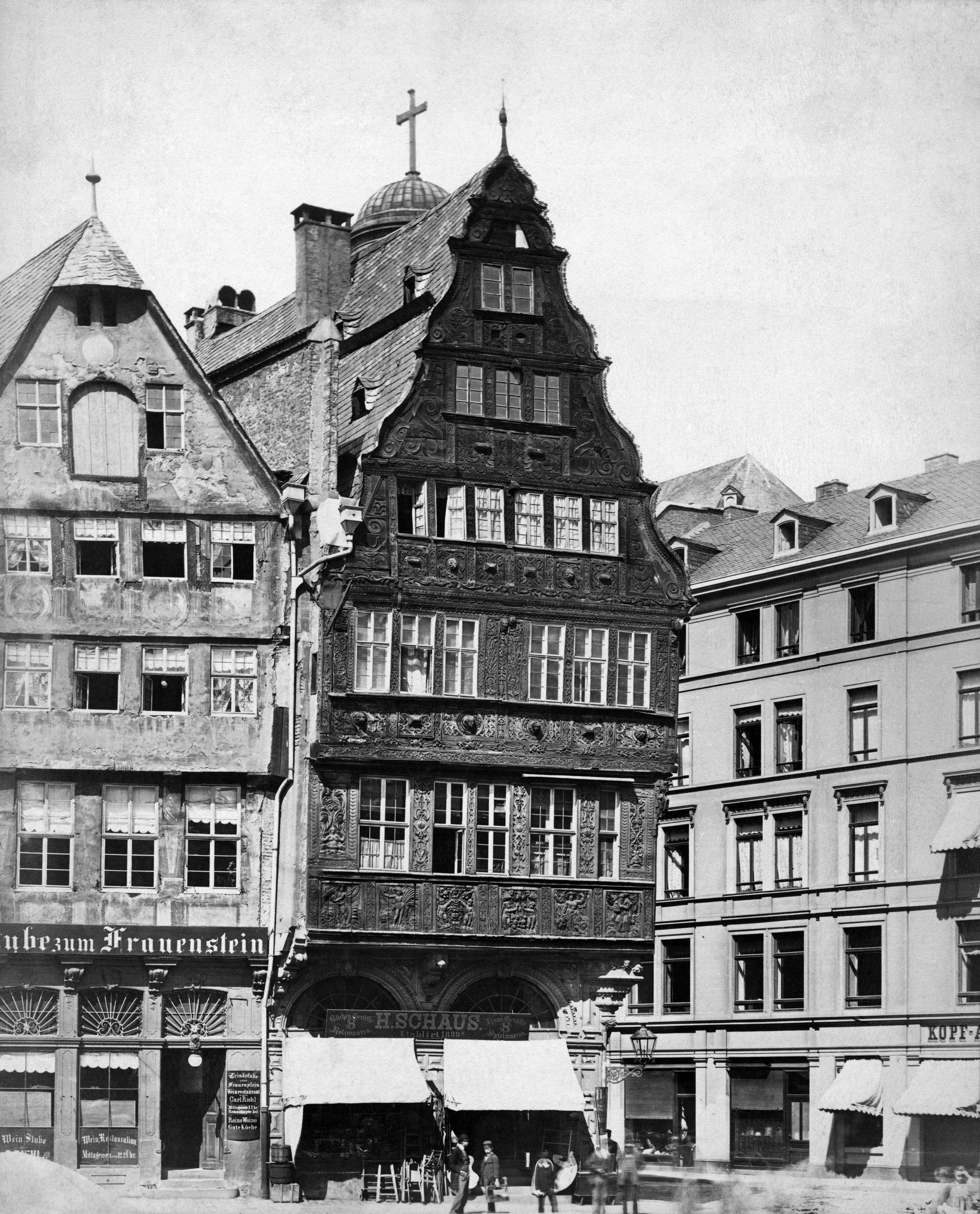 Roemerberg in Frankfurt on the Main: House Frauenstein (to the left) and Salt House (to the right), albumen print